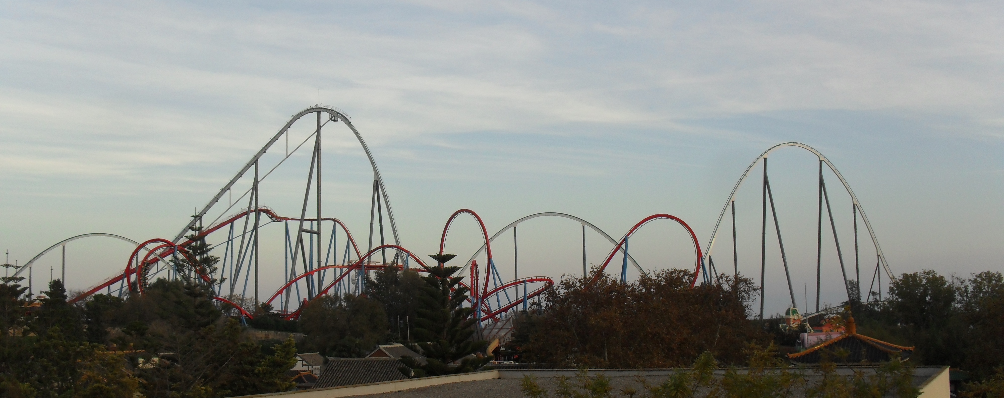 Shambhala and Dragon Khan at Port Aventura, Spain